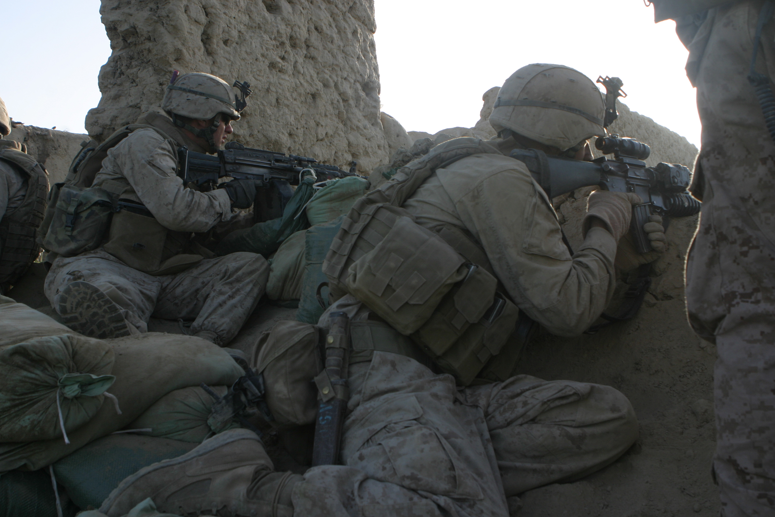 Marines with Alpha Company, 1st Battalion, 6th Marine Regiment, 24th Marine Expeditionary Unit, NATO International Security Assistance Force, operating in Garmsir.